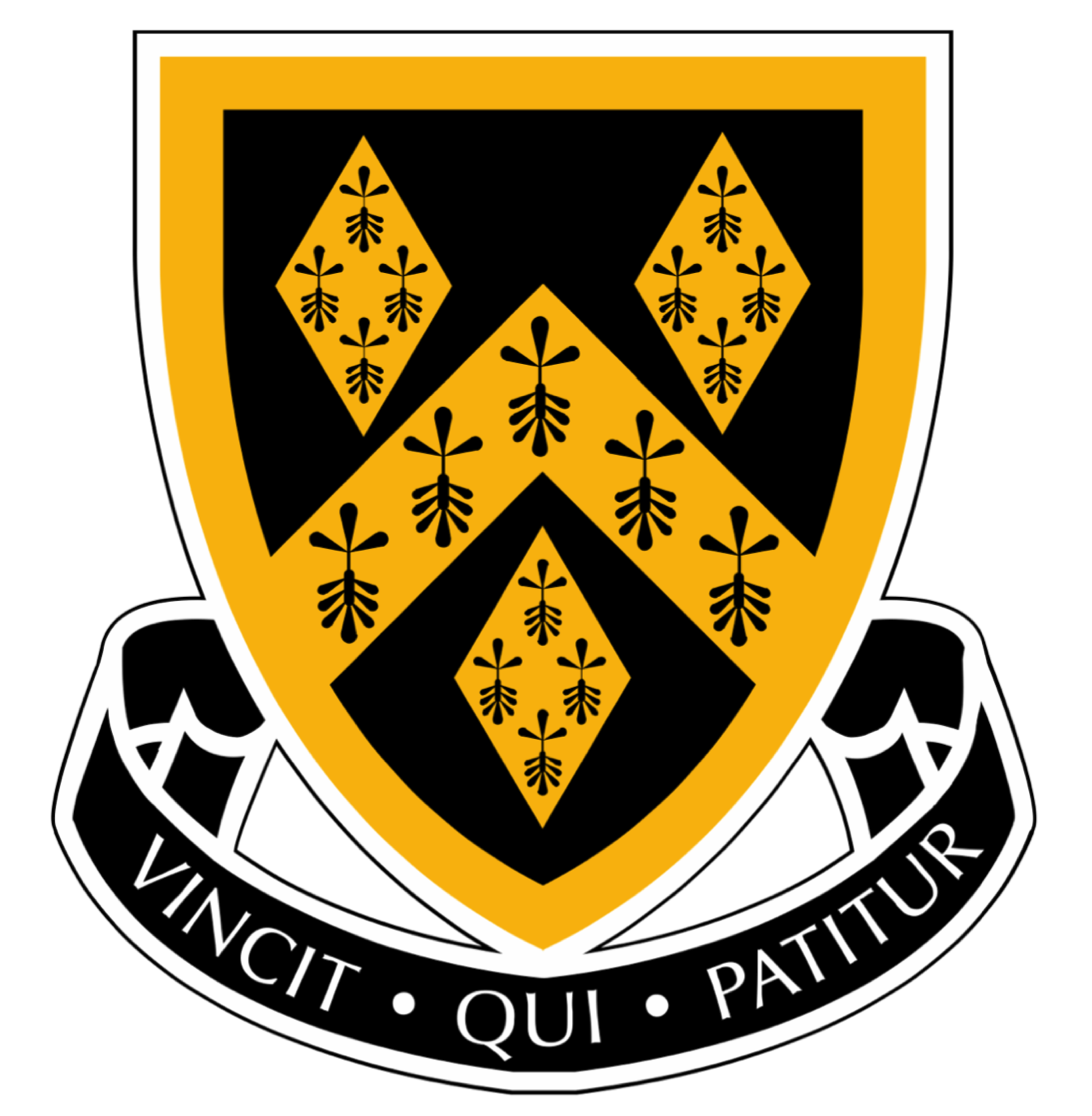 SGS Emblem